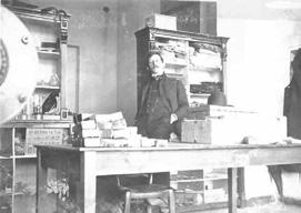 Georgi Kovachev in Plovdiv circa 1900